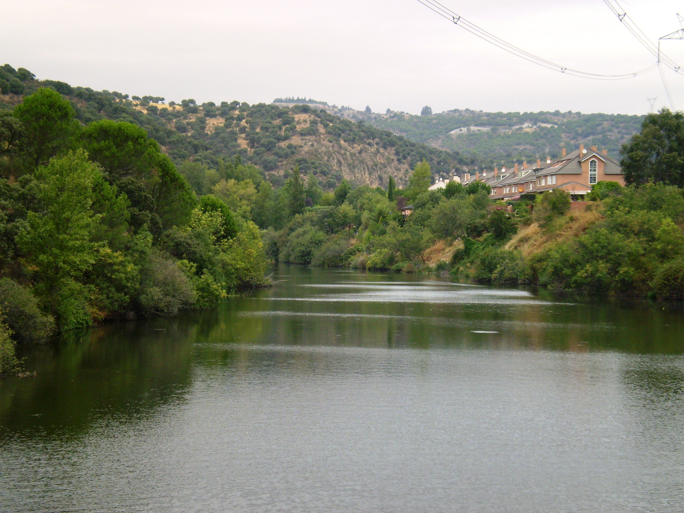 Guadarrama River in Molino de la Hoz Reservoir. Community of Madrid, Spain